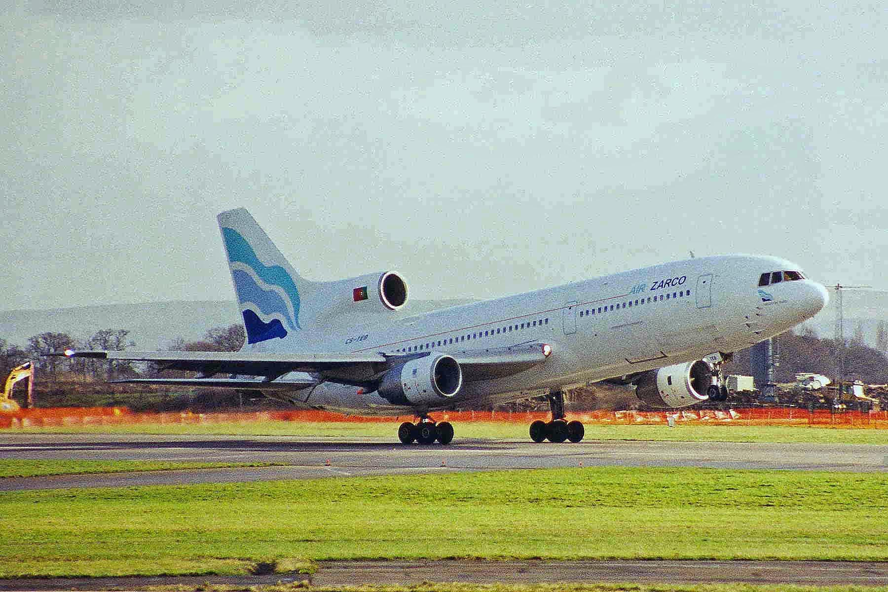 Air Zarco of Portugal (sounds like something out of 'Flash Gordon'!!)